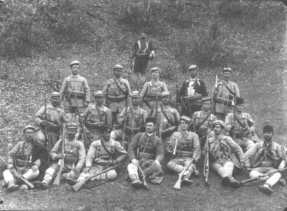 Picture of IMARO voevoda Pancho Konstantinov